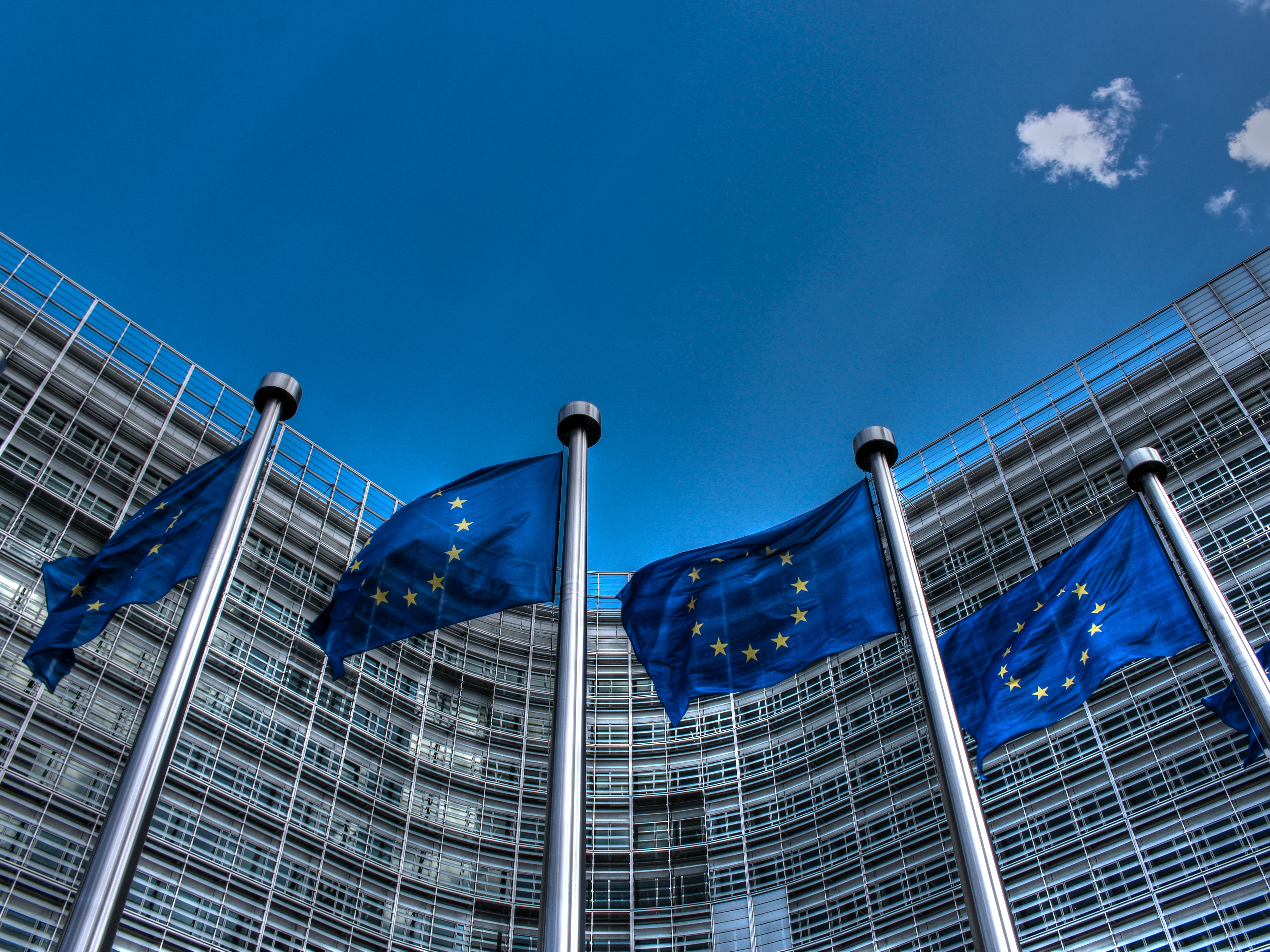 European Union flags in front of the Berlaymont Building, Brussels